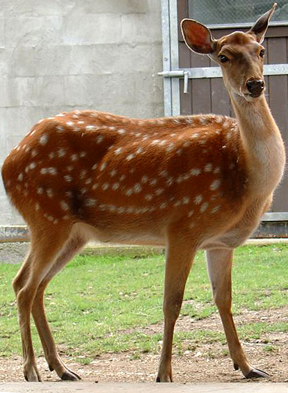 Formosan Sika Deer, in captivity, June 2006. Photo taken at Cougar Mountain Zoo in Issaquah, Washington. At the zoo its pen is labeled "Formosan Elk (Cervus nippon taiouanus)" and visitors are told there are 150 living animals remaining.